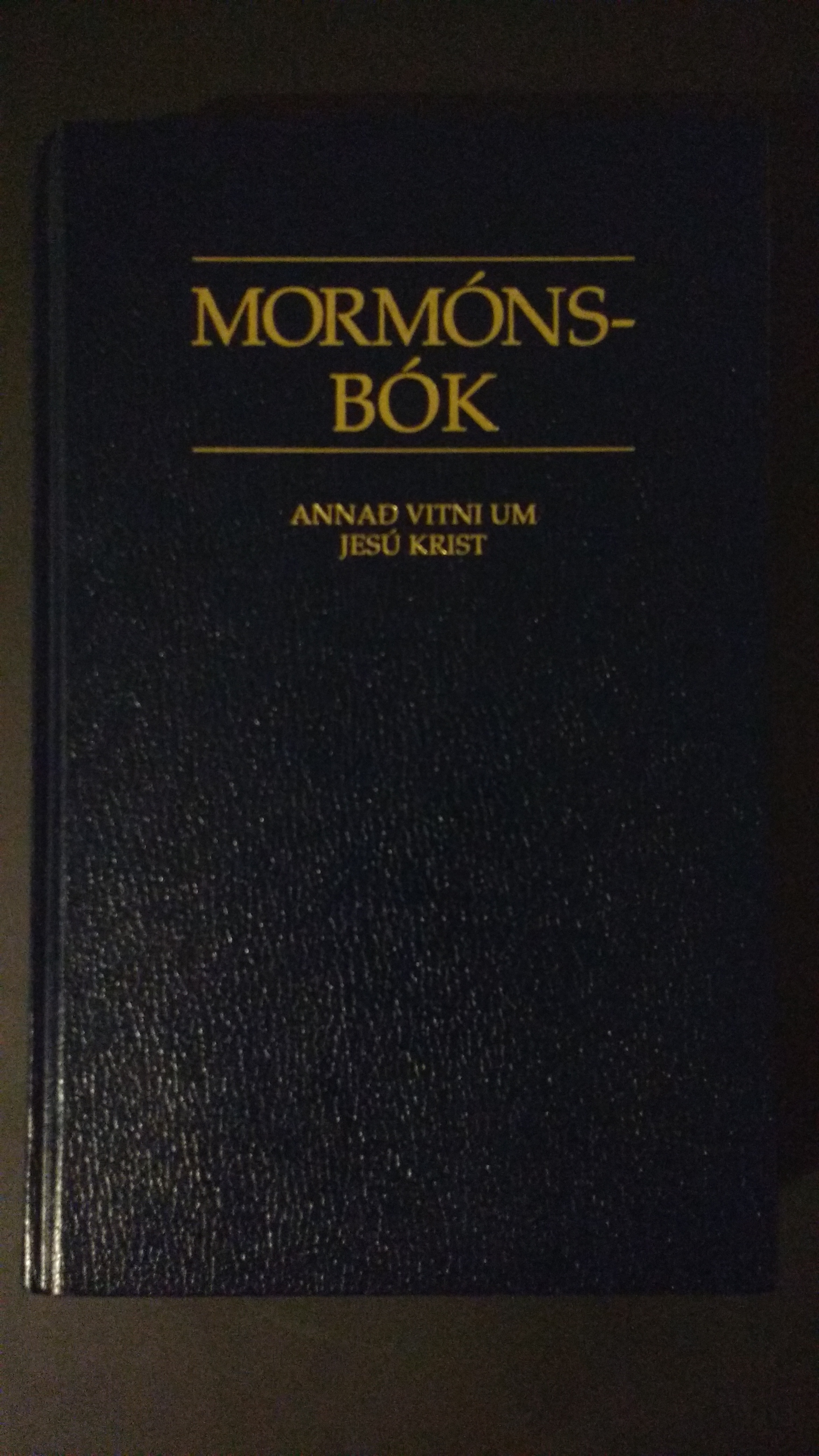 An Icelandic copy of the Book of Mormon published by the Church of Jesus Christ of Latter-day Saints.